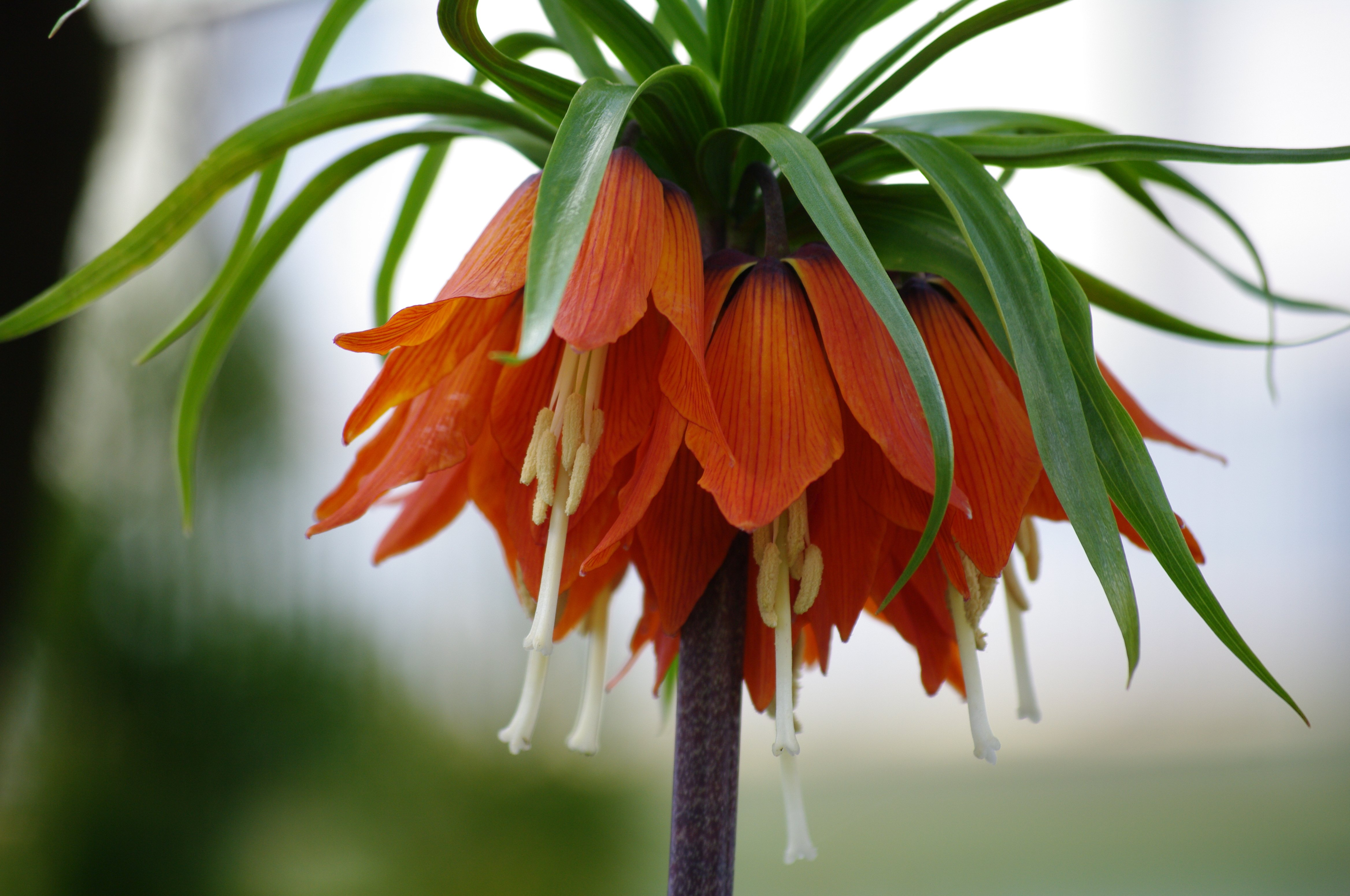 Red Flower